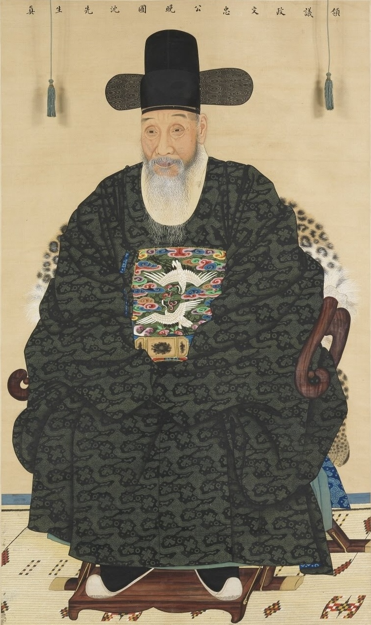 Sim Hwan-ji's portrait in Gyeong-gi do Museum